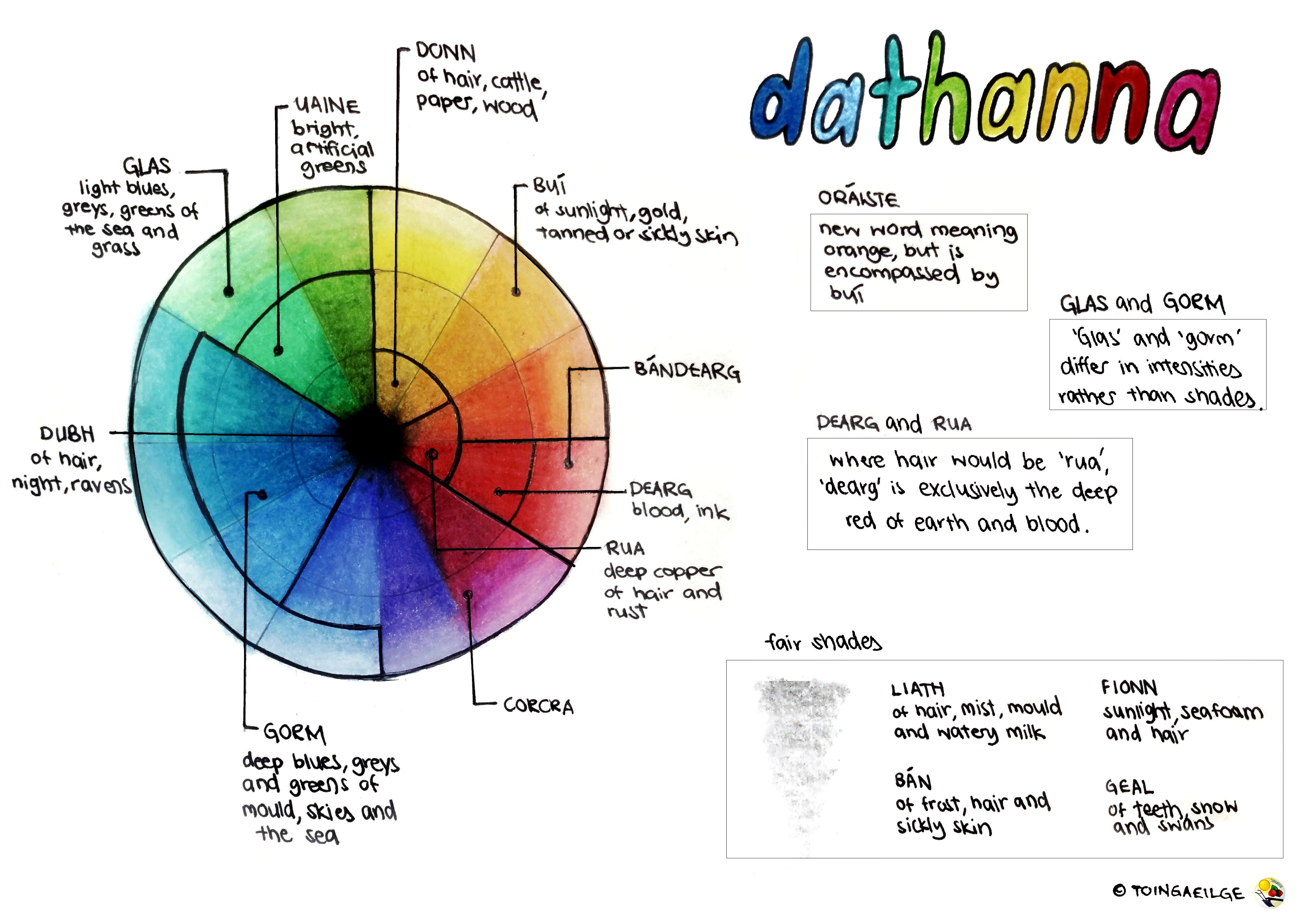 Colour wheel in Irish with notes on their usage